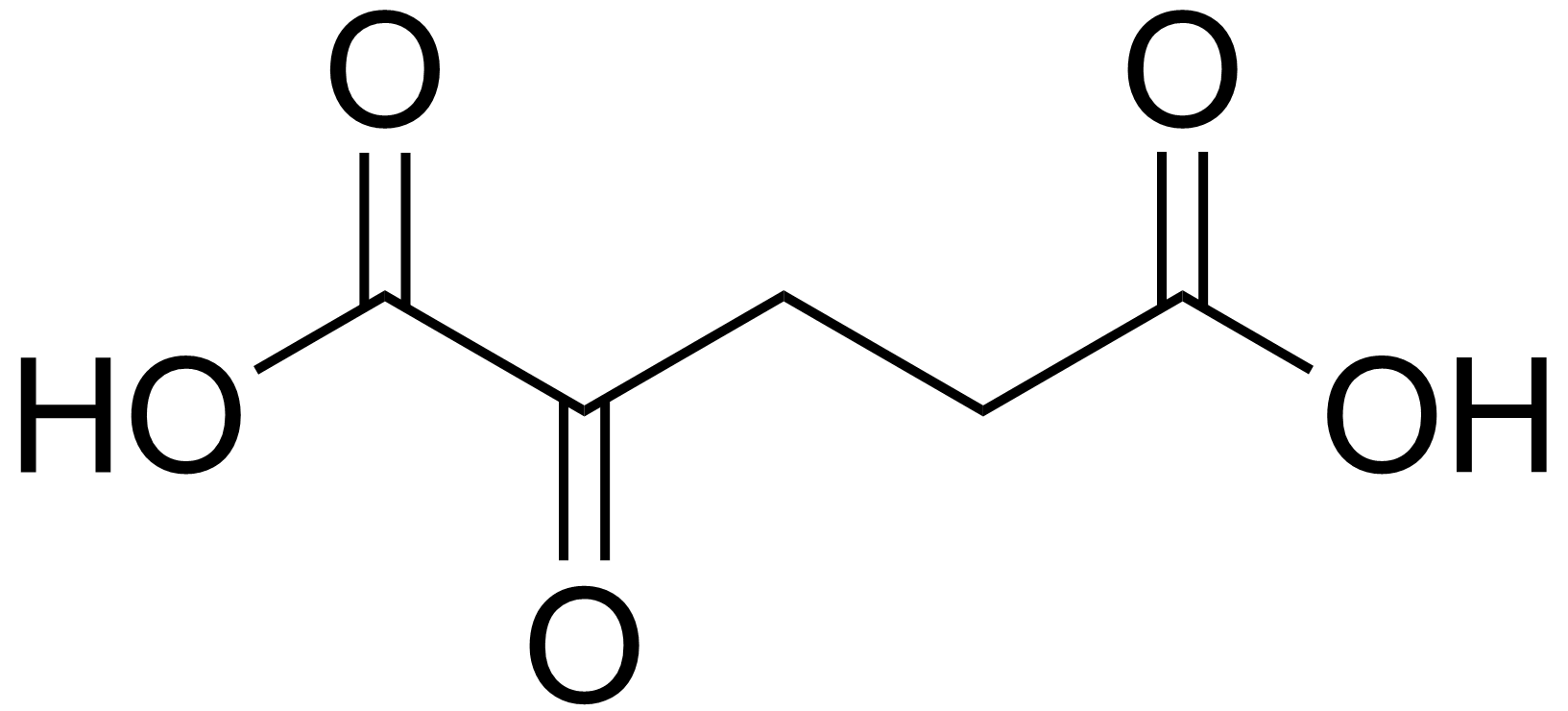 chemical structure of Alpha-ketoglutaric_acid